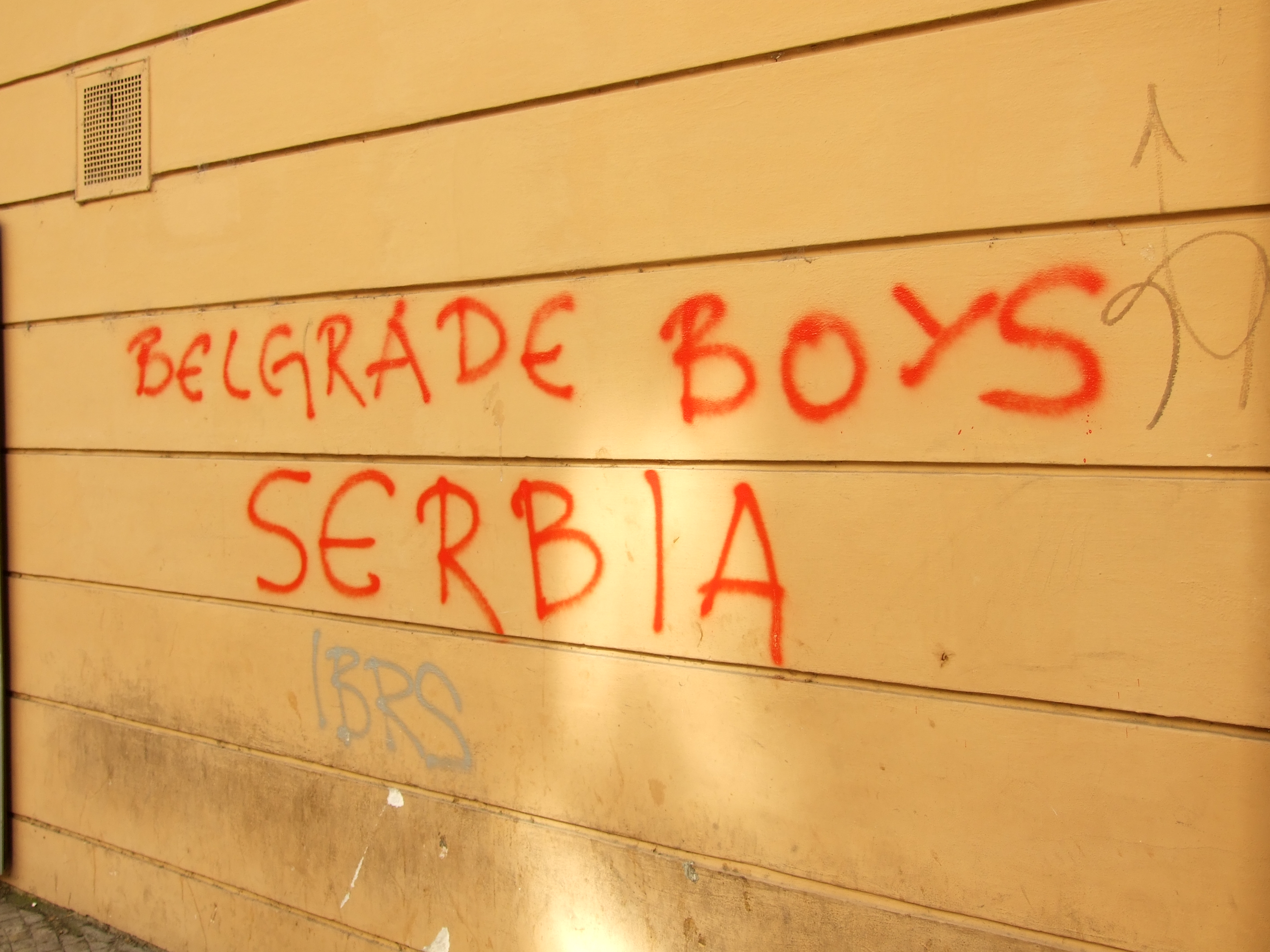 Crvena Zvezda Belgrade hooligans left their tag on a building in central part of Prague - Můstek area - where they were stopped by Czech policehelp